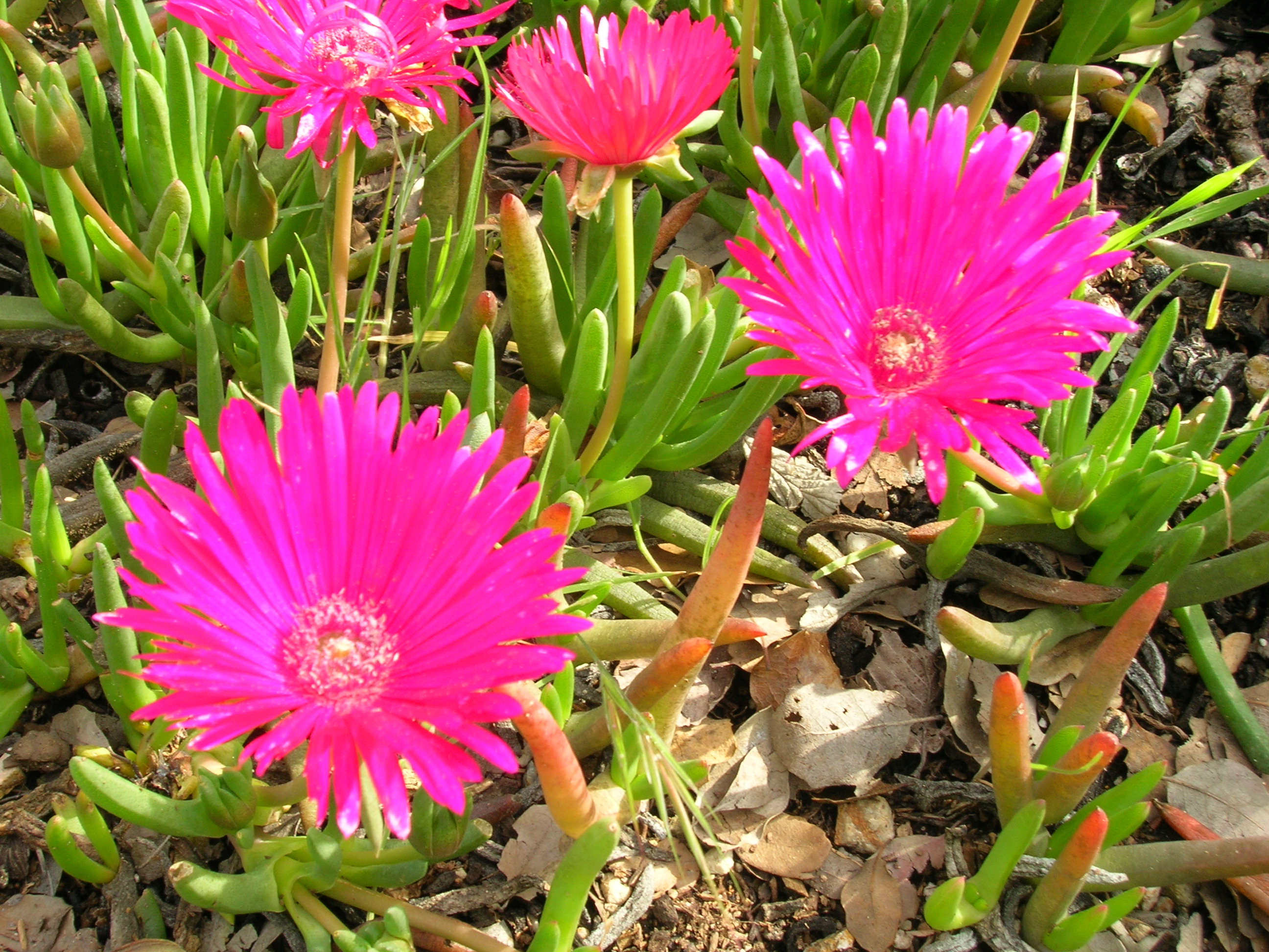 Cephalophyllum alstonii — Red Spike Ice Plant; Aizoaceae In the Wrigley Botanical Garden, on Catalina Island in Southern California. Native to South Africa. i020606 109